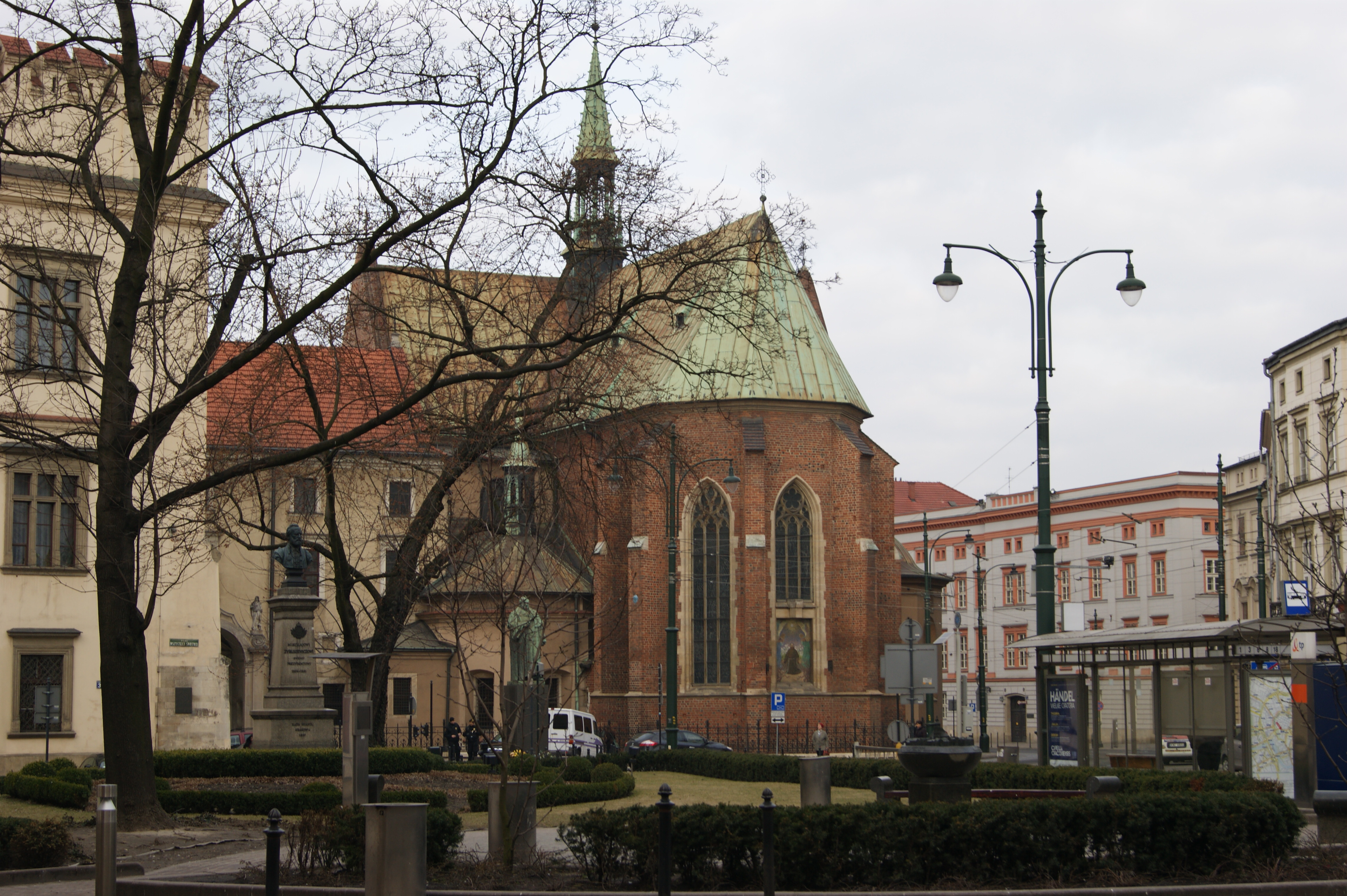 Wszystkich Swietych (All Saints) square, Old Town,Krakow,Poland